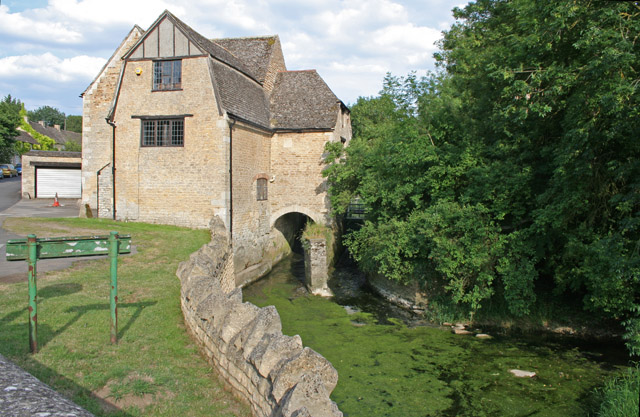 The Mill, Duddington. This old watermill sits on the River Welland